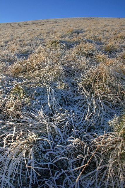 White Stones A 795m top on the eastern ridge of Stybarrow Dodd. Wainwright calls it Green Side. But I prefer to go by the name on the Ordnance Survey map. Green Side being the name for the steeper craggy southern slope overlooking Sticks Gill. From the top of Glencoyne Head.